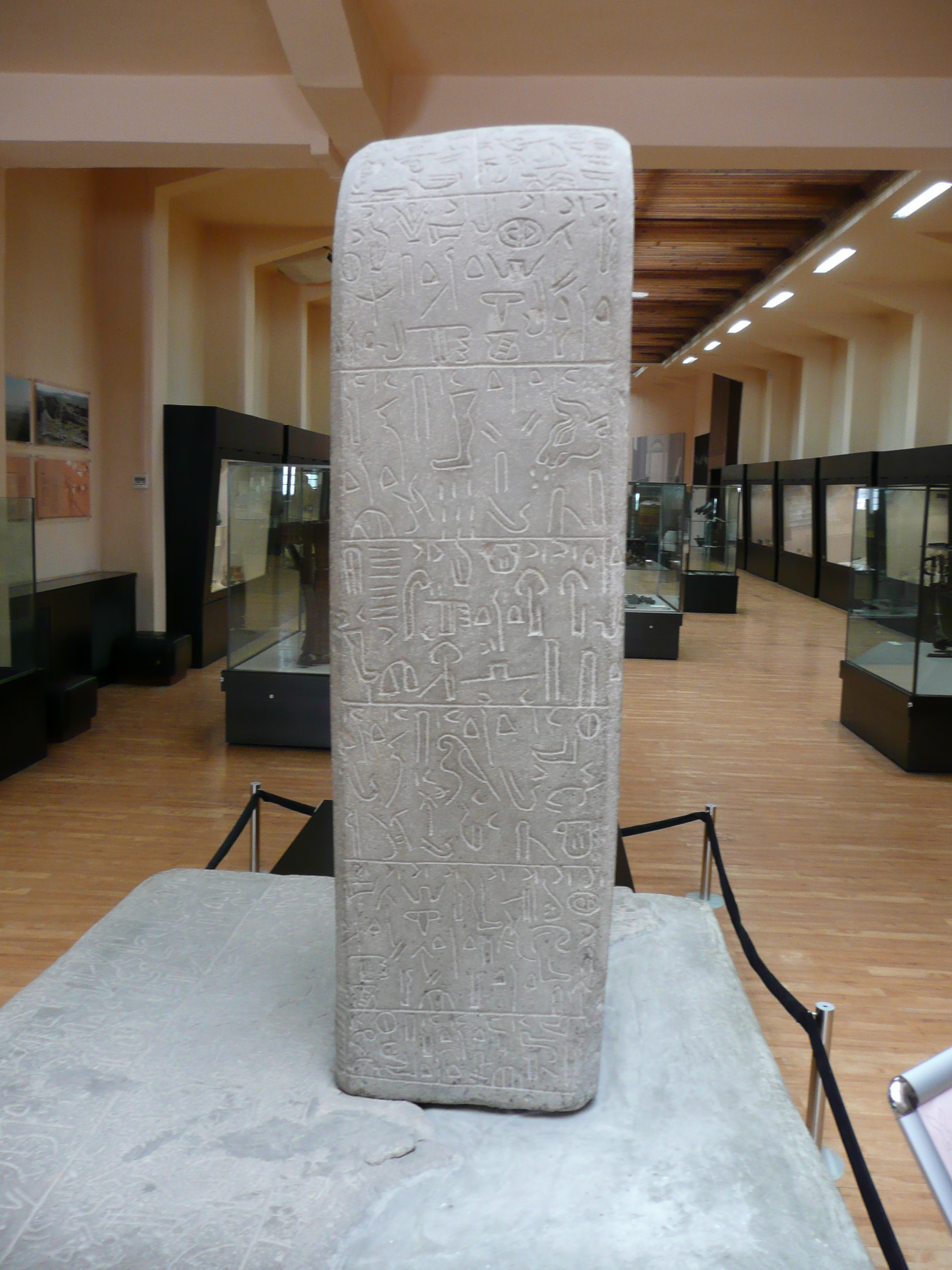 The Museum of Anatolian Civilizations is situated in Ankara, Turkey. It is one of the leading museums in the world for its unique collection of the ancient history of Anatolia.